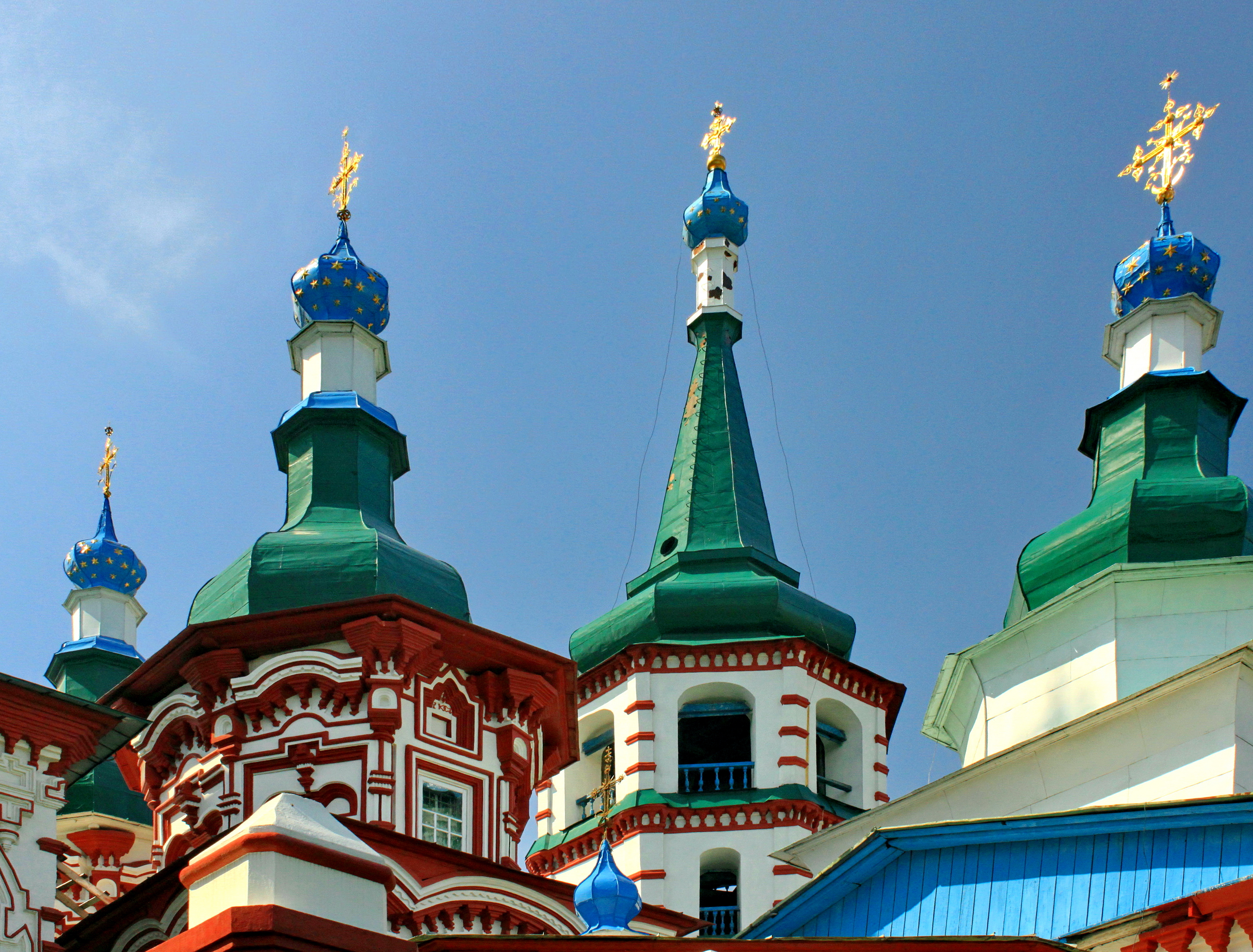 Church of the Exaltation of the Holy Cross. Irkutsk, Russia.